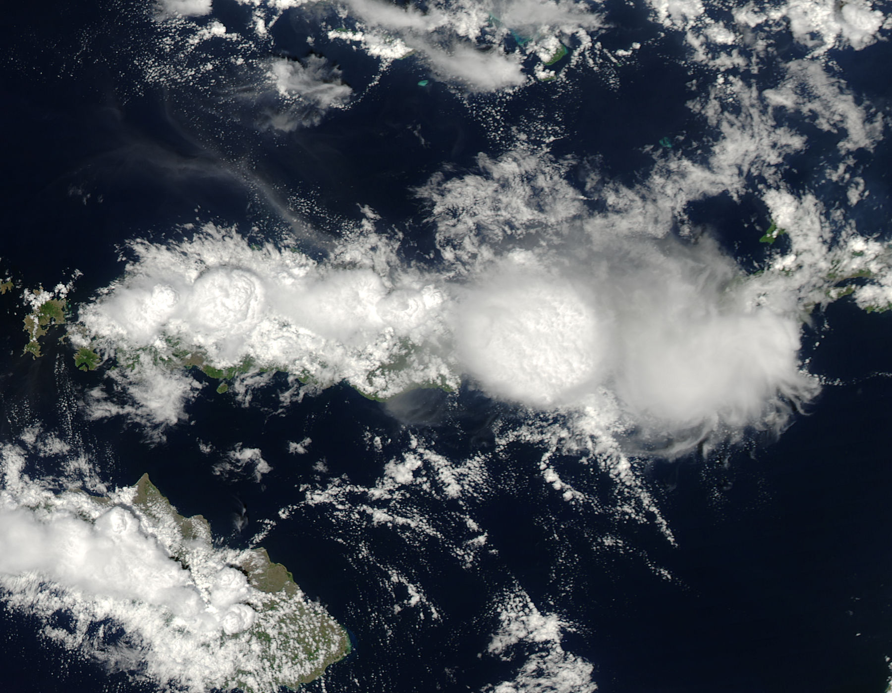 In a view from high altitude, height can be a difficult thing to gauge. The highest of clouds can appear to sit on a flat plane, as if they were at the same elevation as the ocean or land surface. In this image, however, texture, shape and shadows lend definition to mushrooming thunderheads over the Indonesian island of Flores. The Moderate Resolution Imaging Spectroradiometer (MODIS) on NASA’s Aqua satellite acquired this image on the afternoon of Dec. 2, 013.